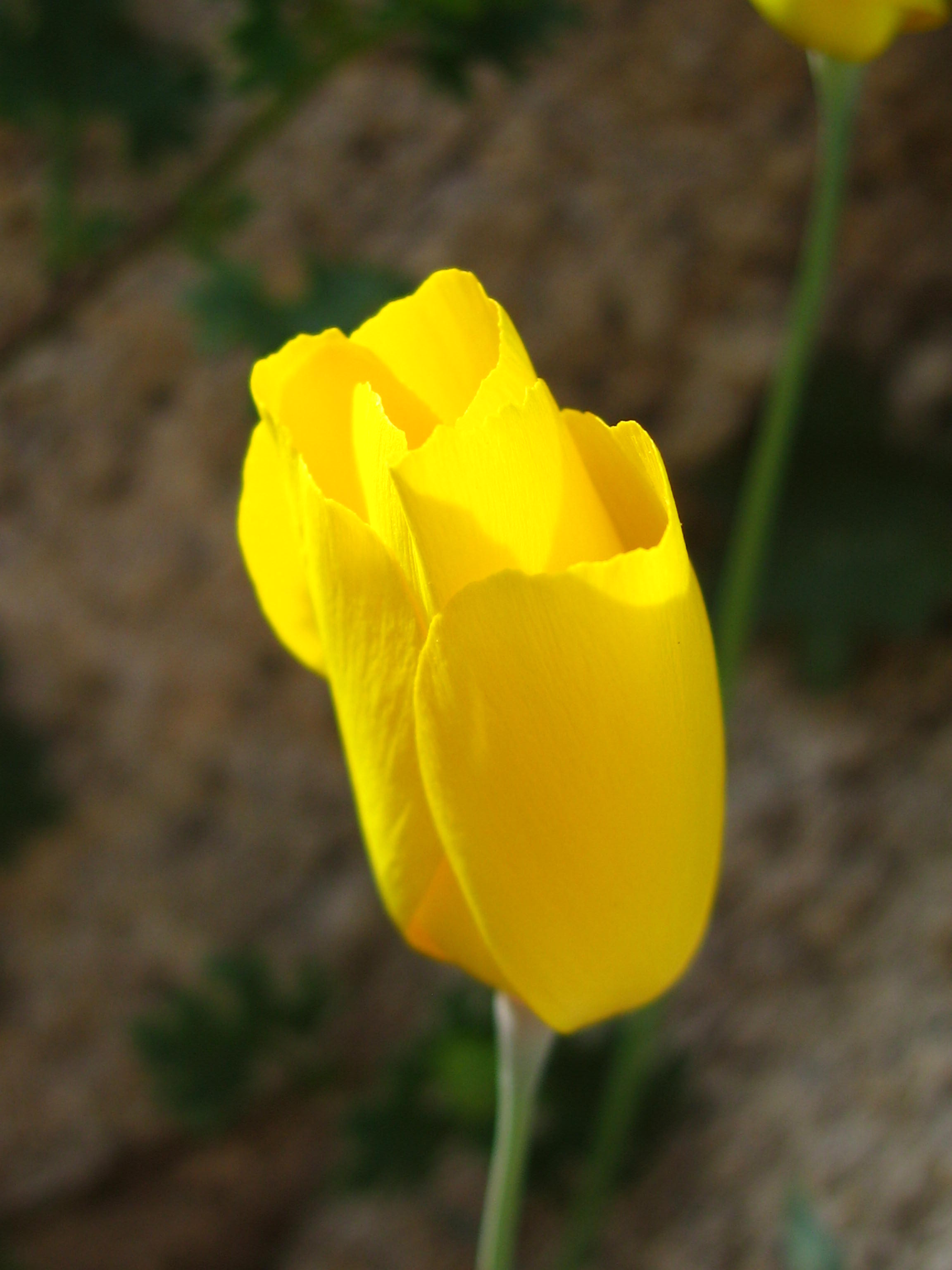 Eschscholzia parishii — Parish's poppy. Flora of the Cleghorn Lakes Wilderness, in the southern Mojave Desert north of Joshua Tree National Park, Southern California.